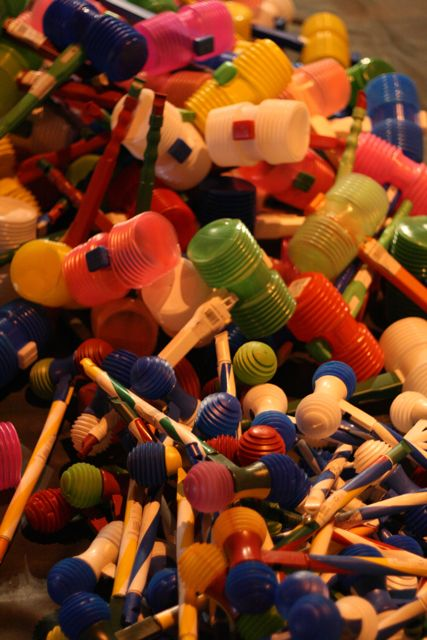 Weapons Cache